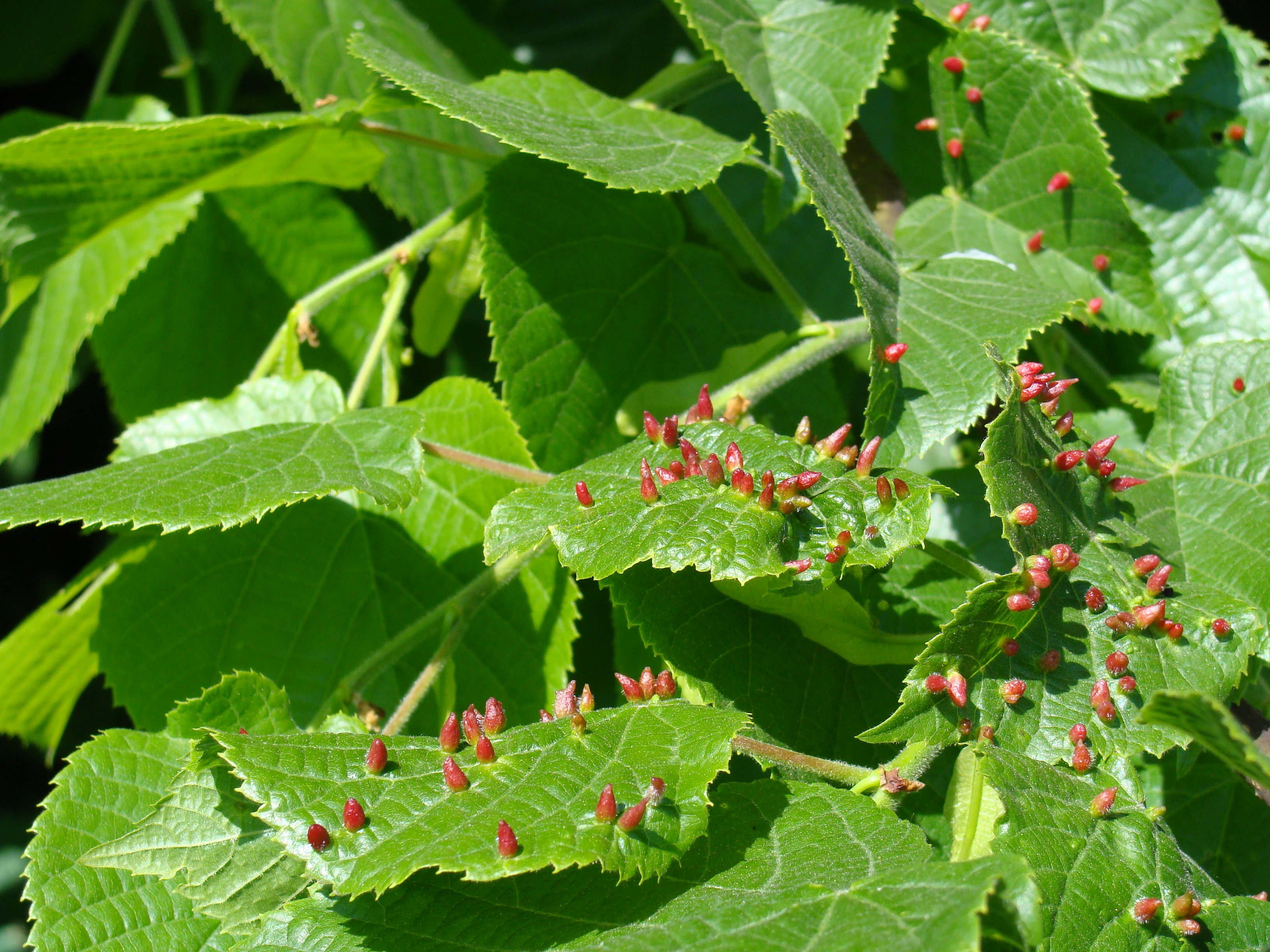 Eriophyes tiliae